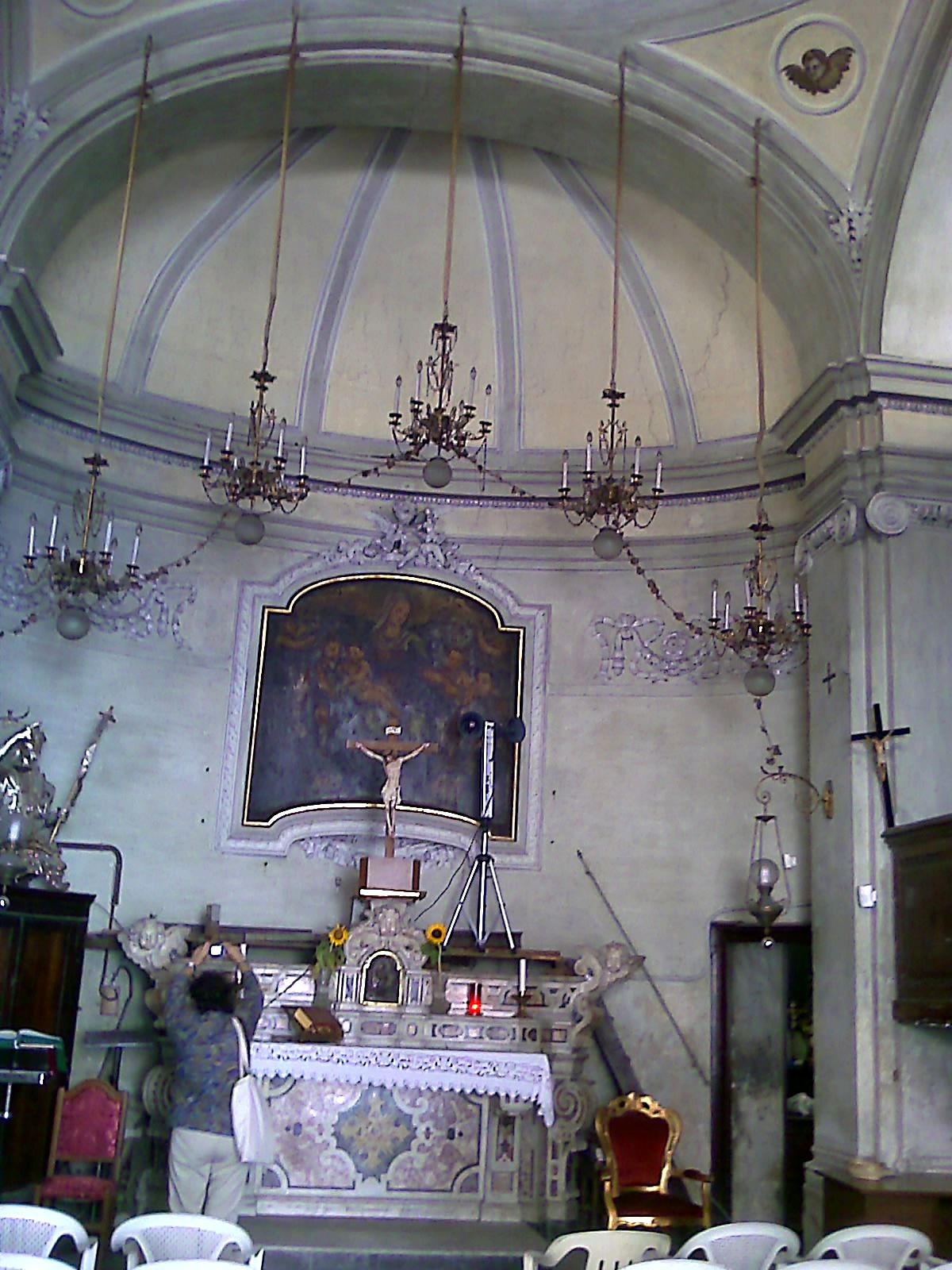 Chiesa di Sant'Andrea Apostolo detta dei Gattoli: Inside